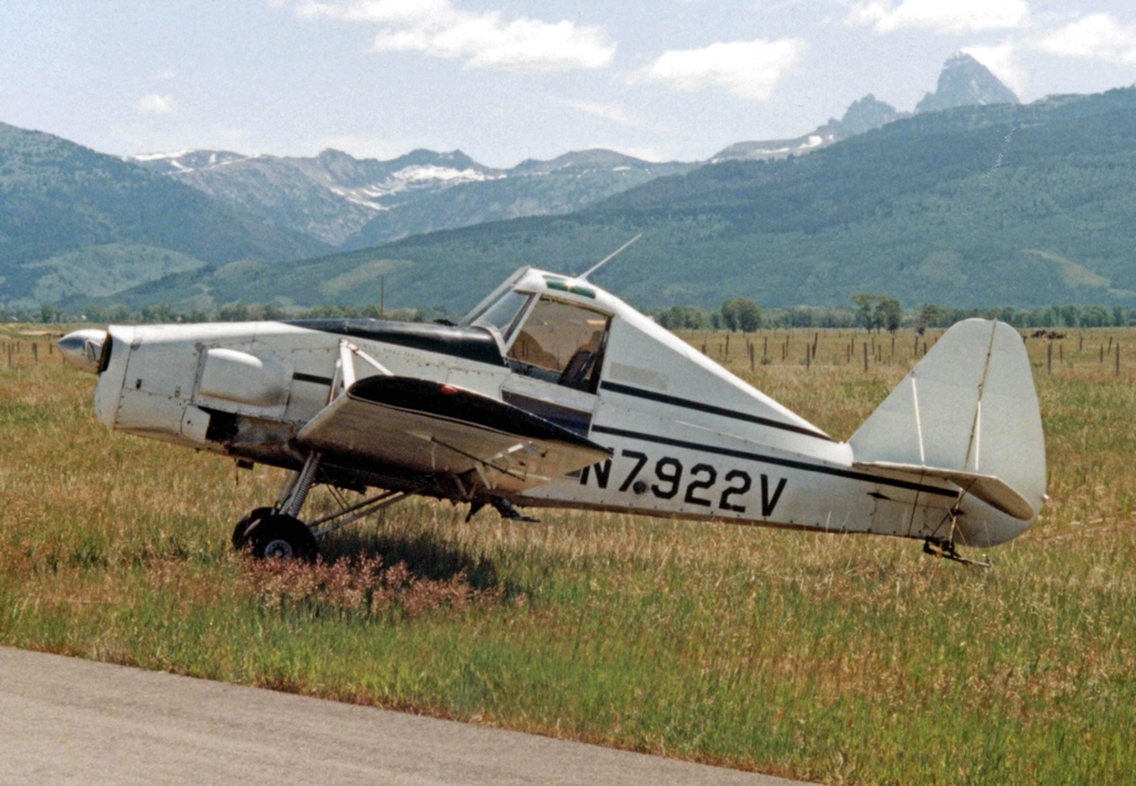 CallAir A-9B Ag Commander N7922V at Driggs, Idaho Airort